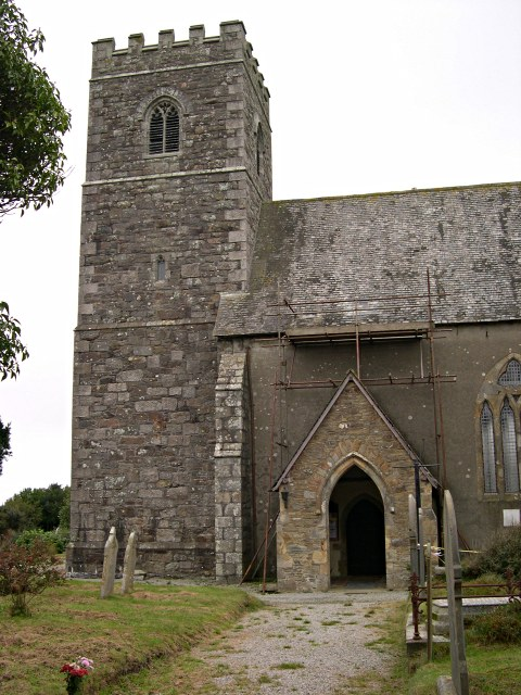 St Peter's Church in the parish of Mithian Mithian parish was created in 1847 to serve the growing population around Mithian and Blackwater. The church itself was built between the two villages near Chiverton Cross.